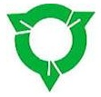 Owariasahi Aichi chapter